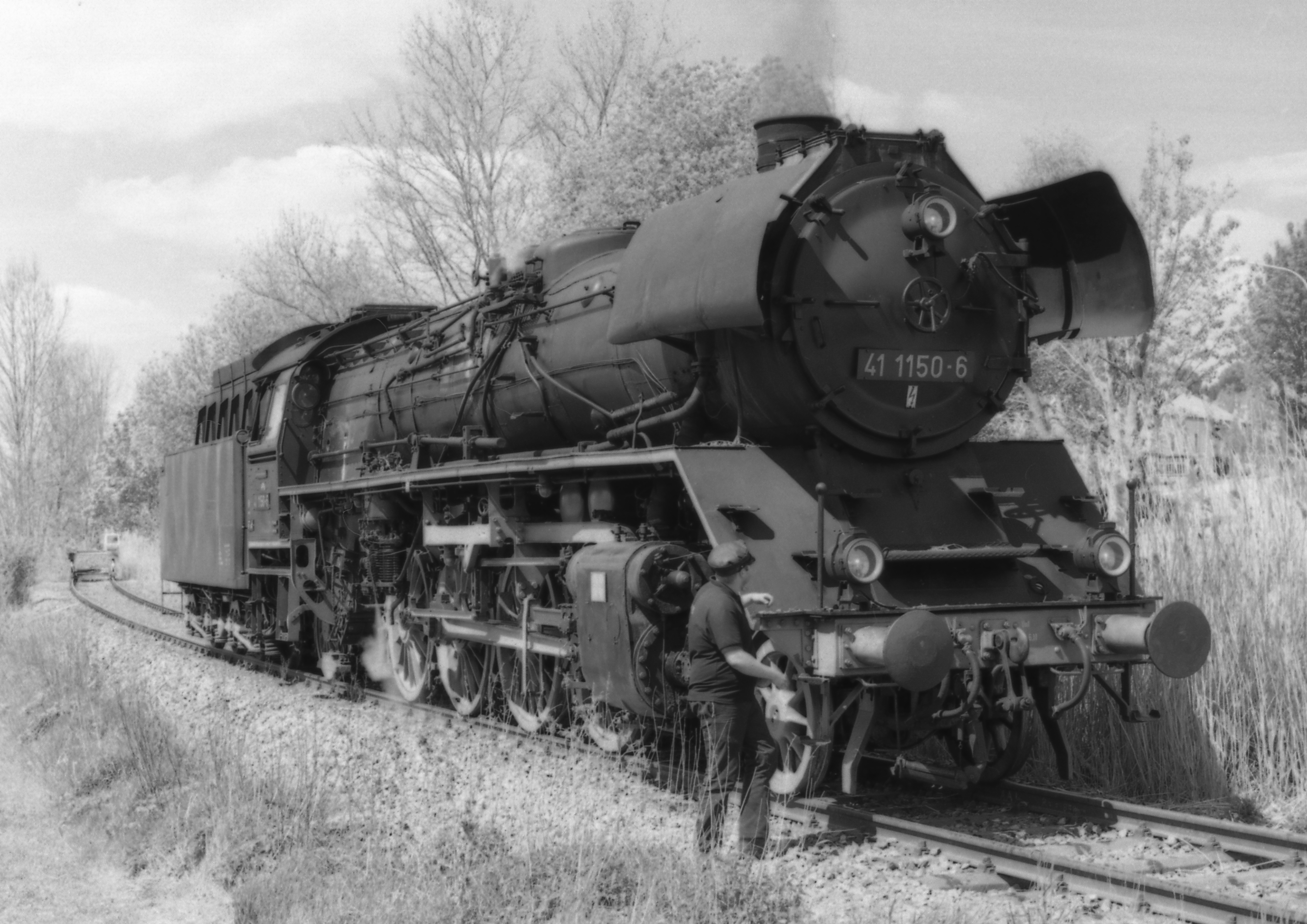 Historical steam locomotive from the 41-series, built around 1934, still working (2014)